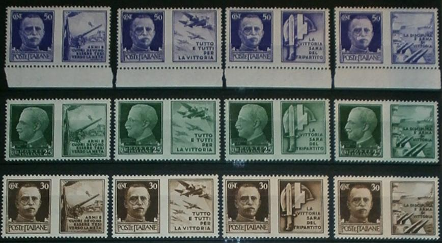 Stamps of the Kingdom of Italy - 1942 - war propaganda